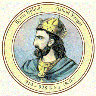 King Ashot II of Armenia